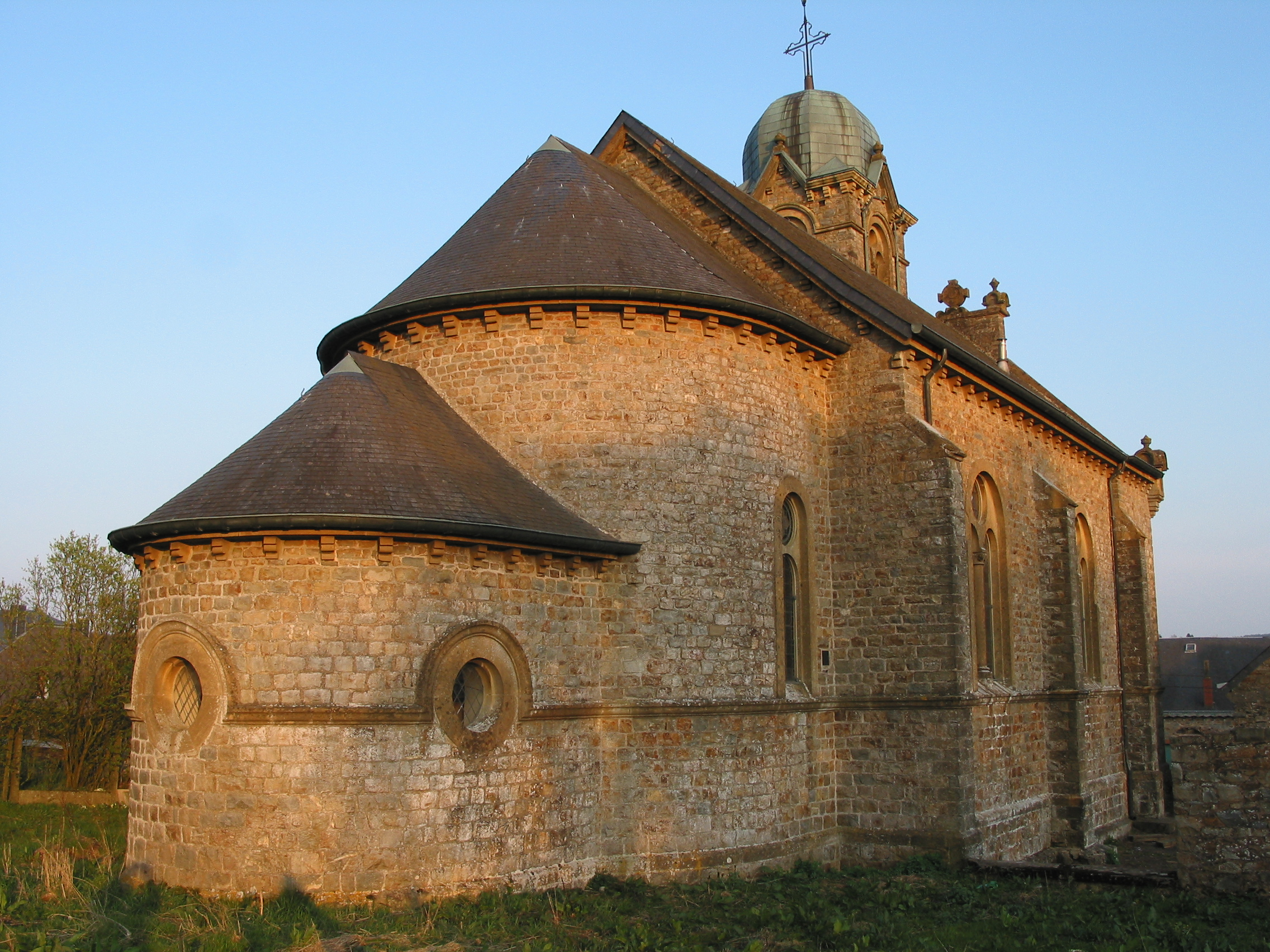 Lorcy (Belgium), the St. Martin church (1877-1878).